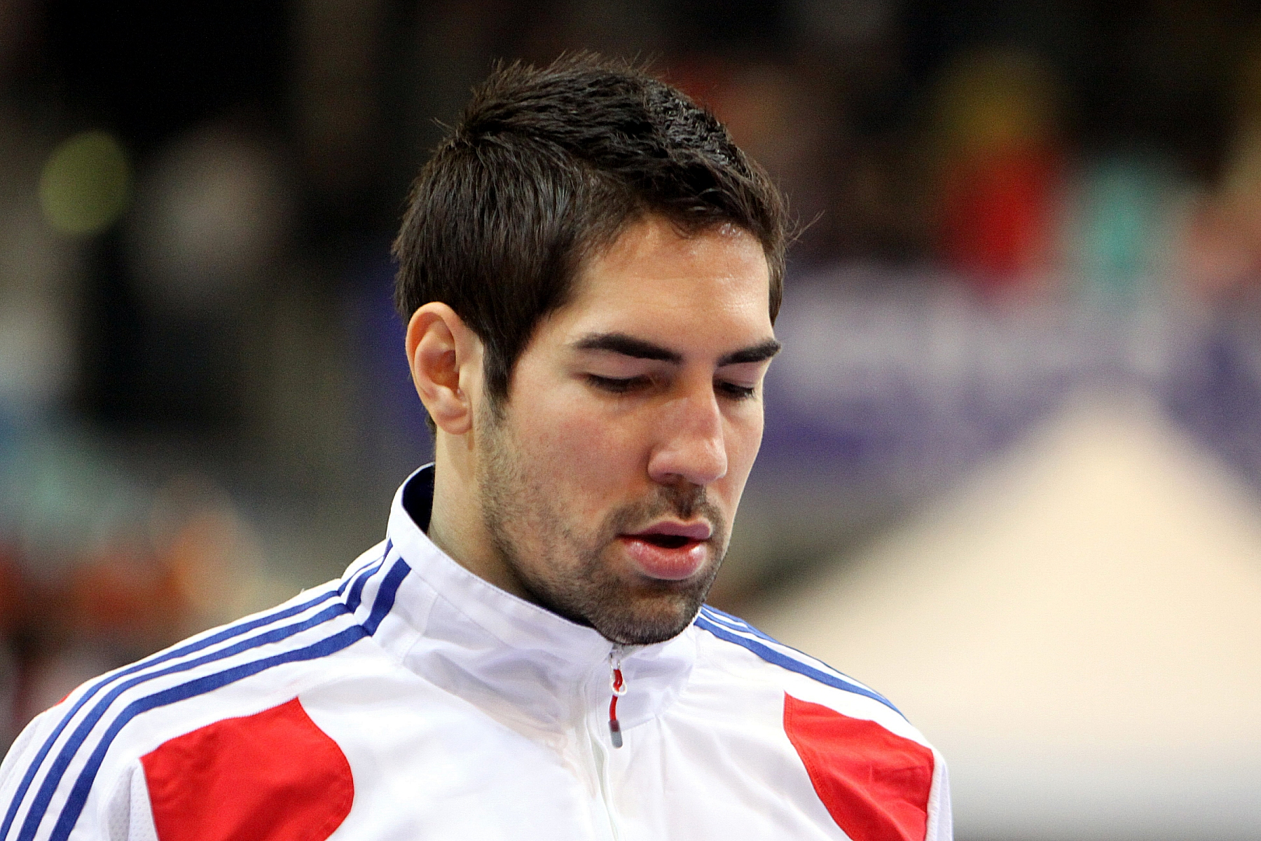 Nikola Karabatić (Montpellier HB), France national handball team